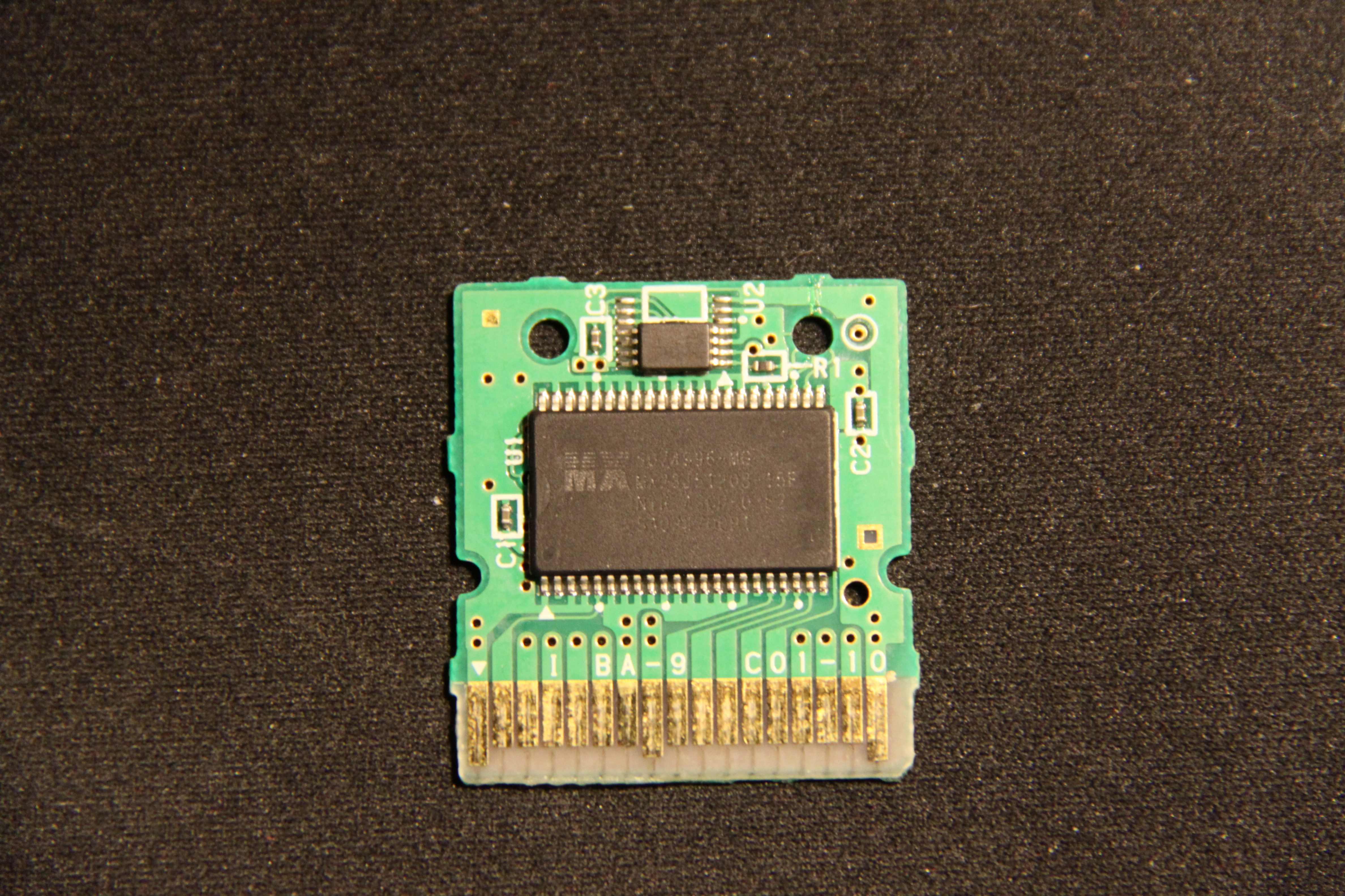 PCB from the Nintendo DS game "SONIC RUSH".